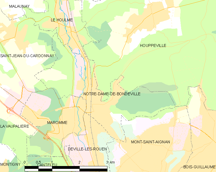 Map of French municipality Notre-Dame-de-Bondeville